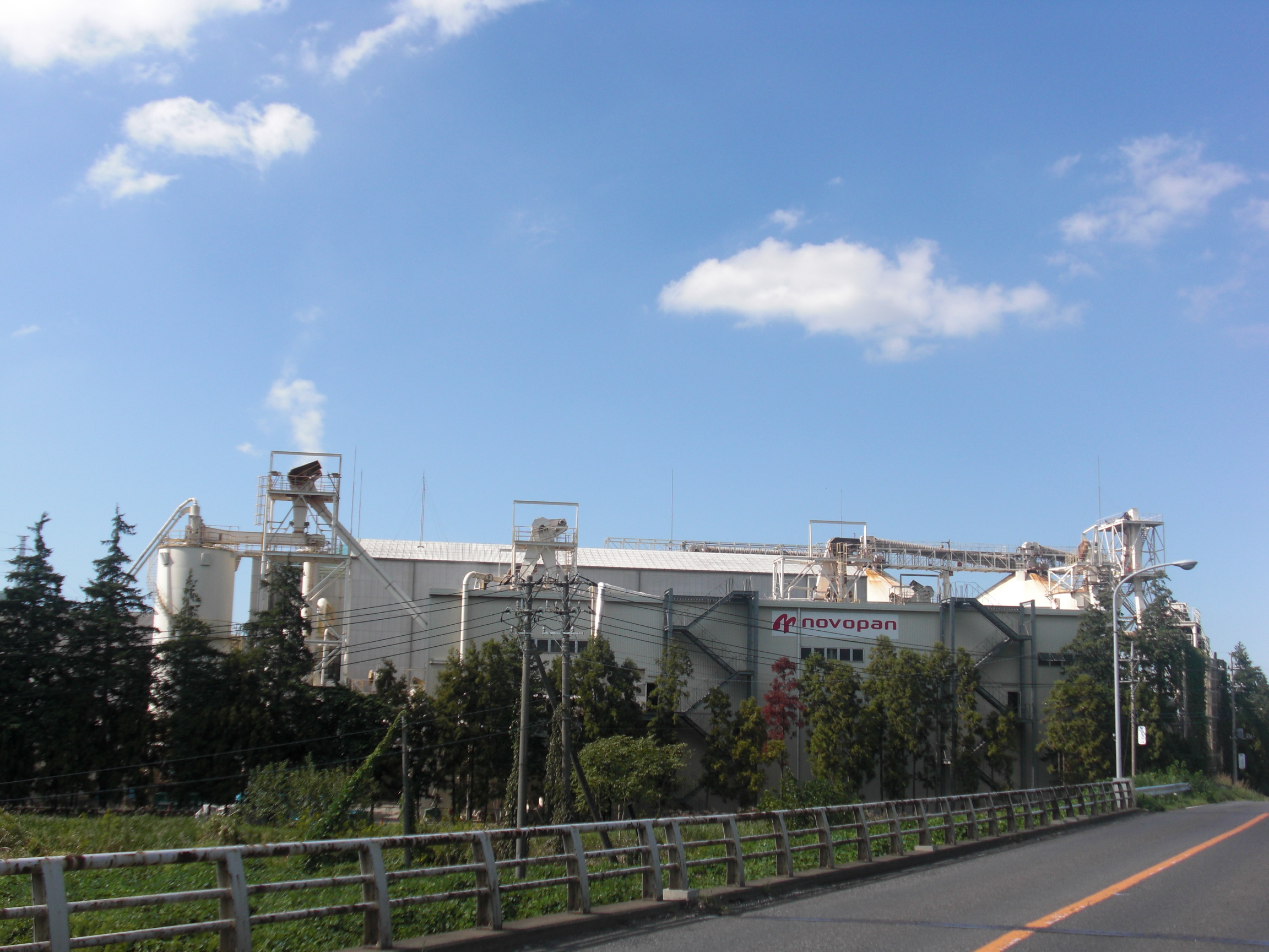 This is a factory in Tsukuba, Ibaraki, Japan.